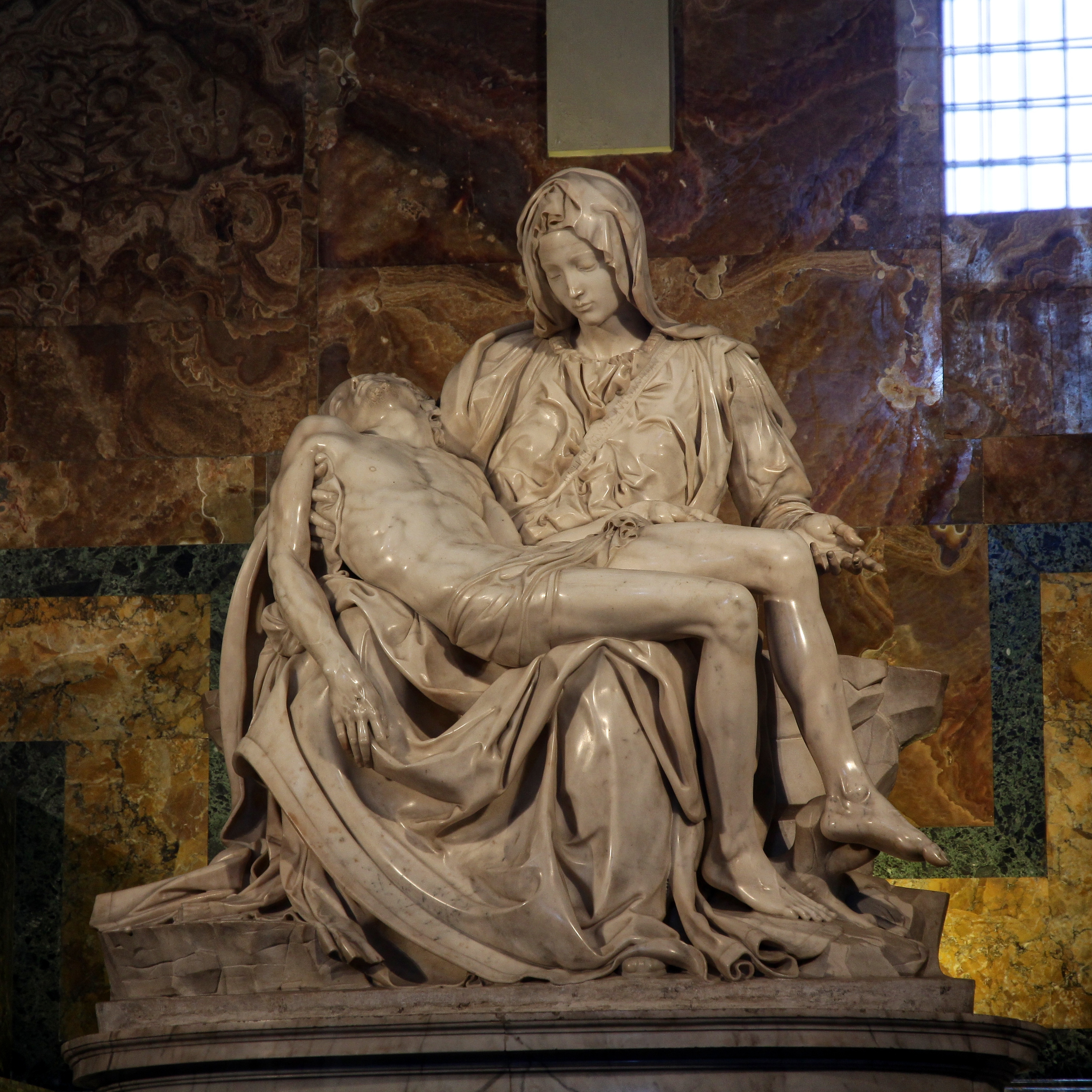 Michelangel's Pietà - 1499-1500, Saint Peter's Basilica, Rome